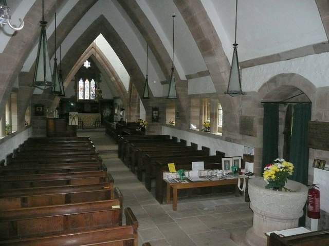 All Saints' interior 1 View towards the chancel